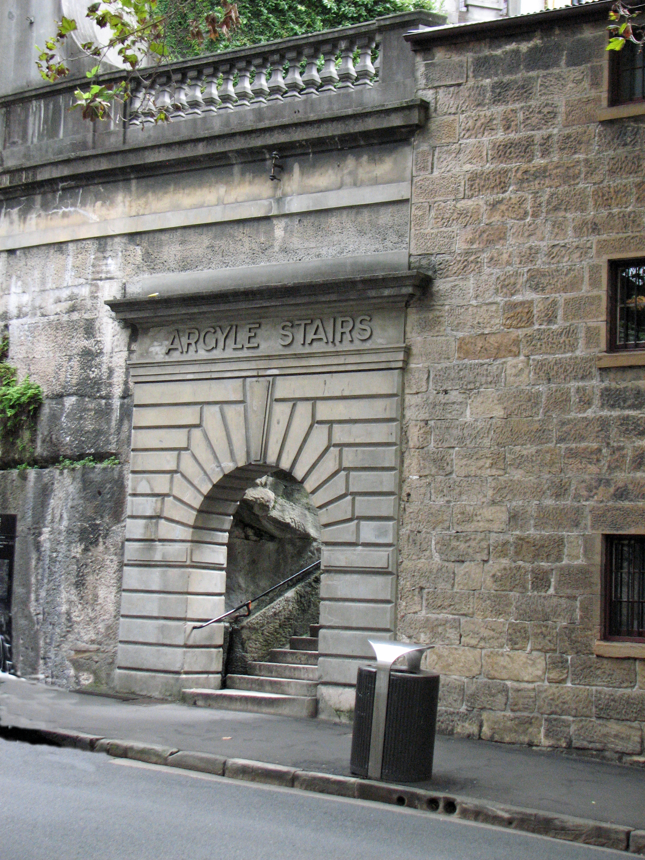 The Argyle Stairs in Argyle Street, The Rocks in the Argyle Cut and are near the arch of the Argyle Bridge. The area is listed on the New South Wales Heritage Register